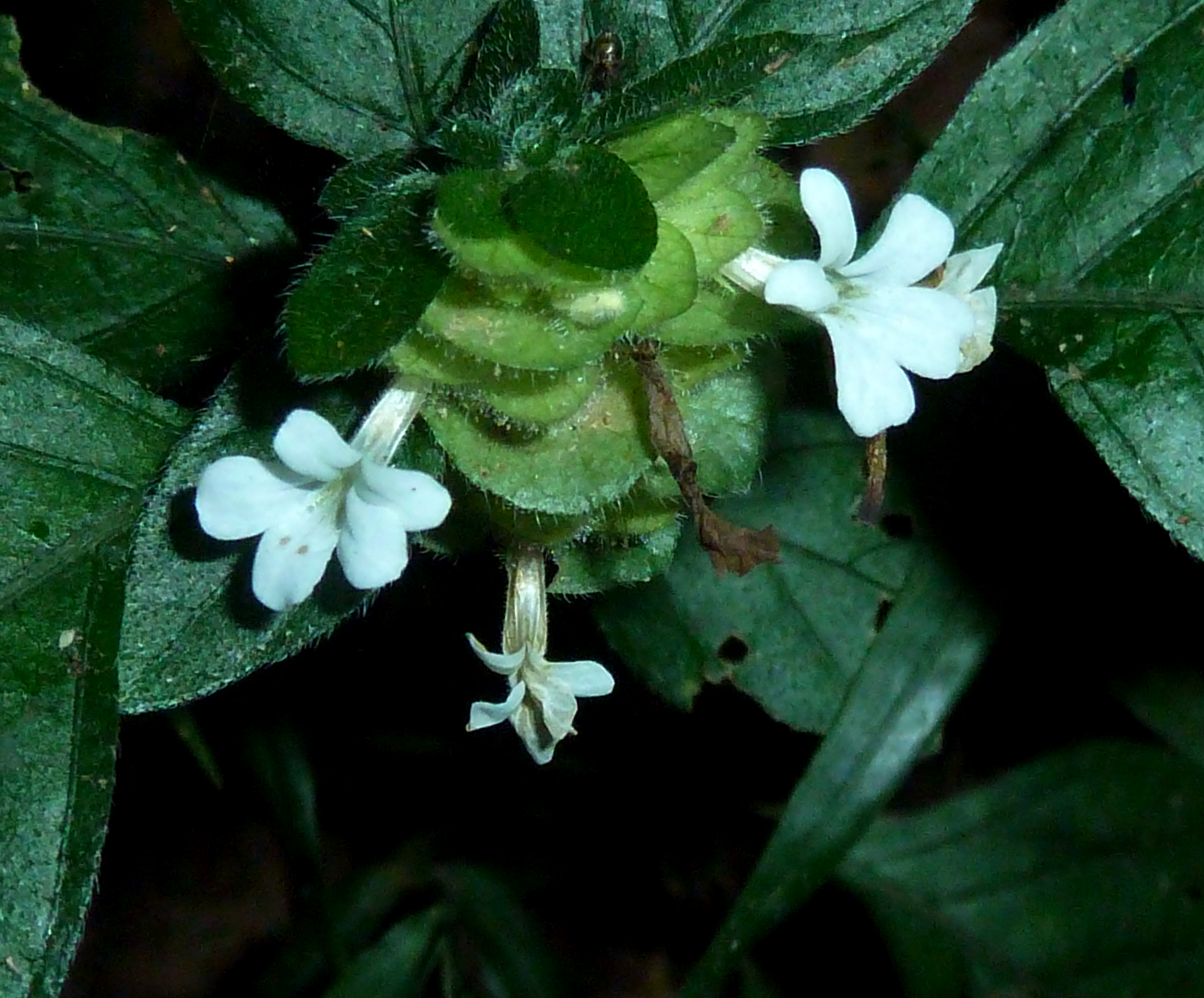 Inflorescence of Phaulopsis imbricata in Krantzkloof Nature Reserve, KwaZulu-Natal